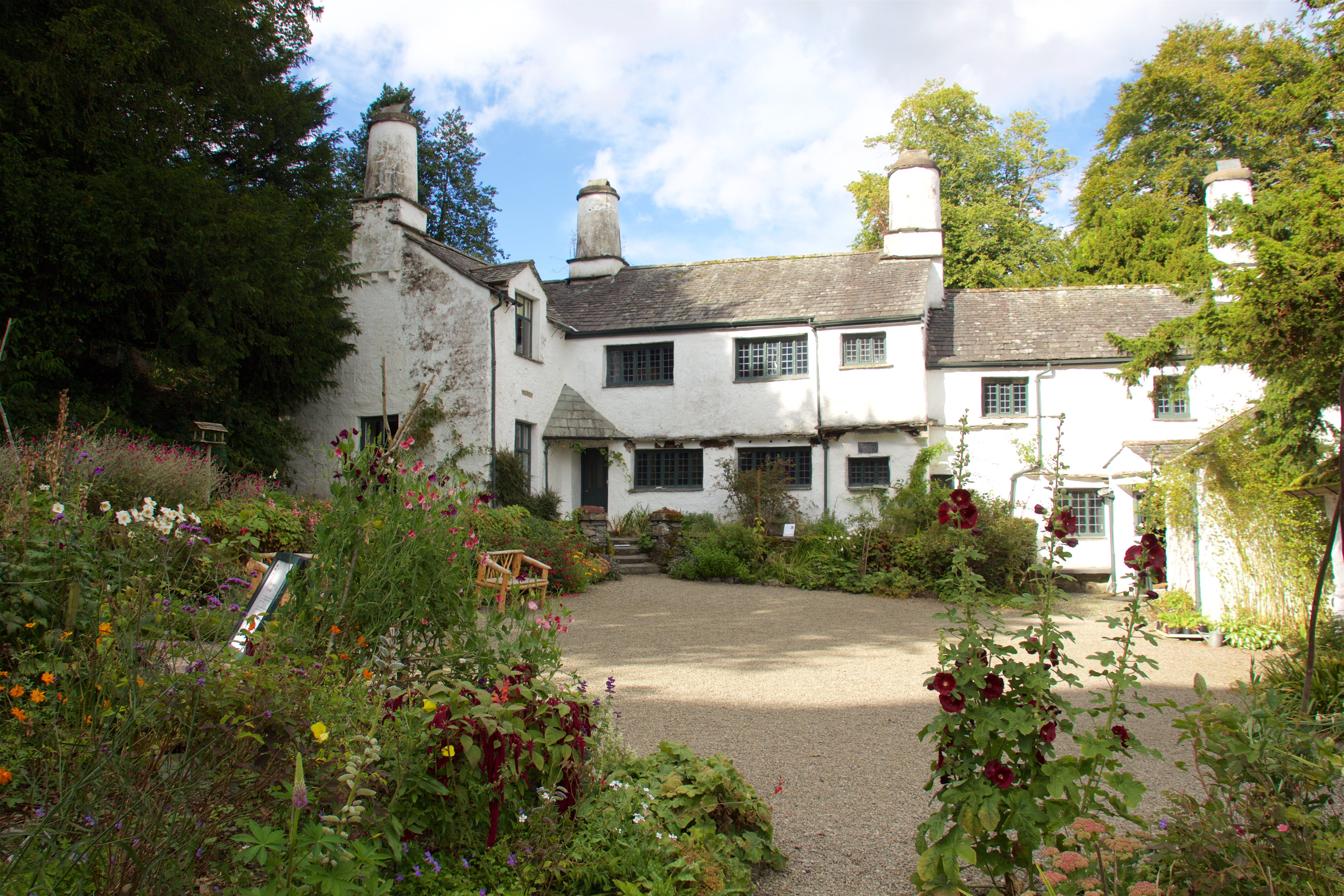 Townend National Trust property, Cumbria, United Kingdom